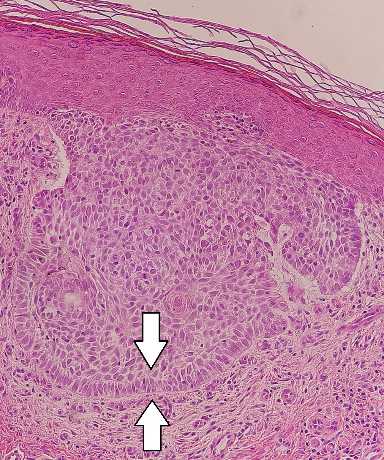 Palisading in nodular basal cell cancer. H&E stain.